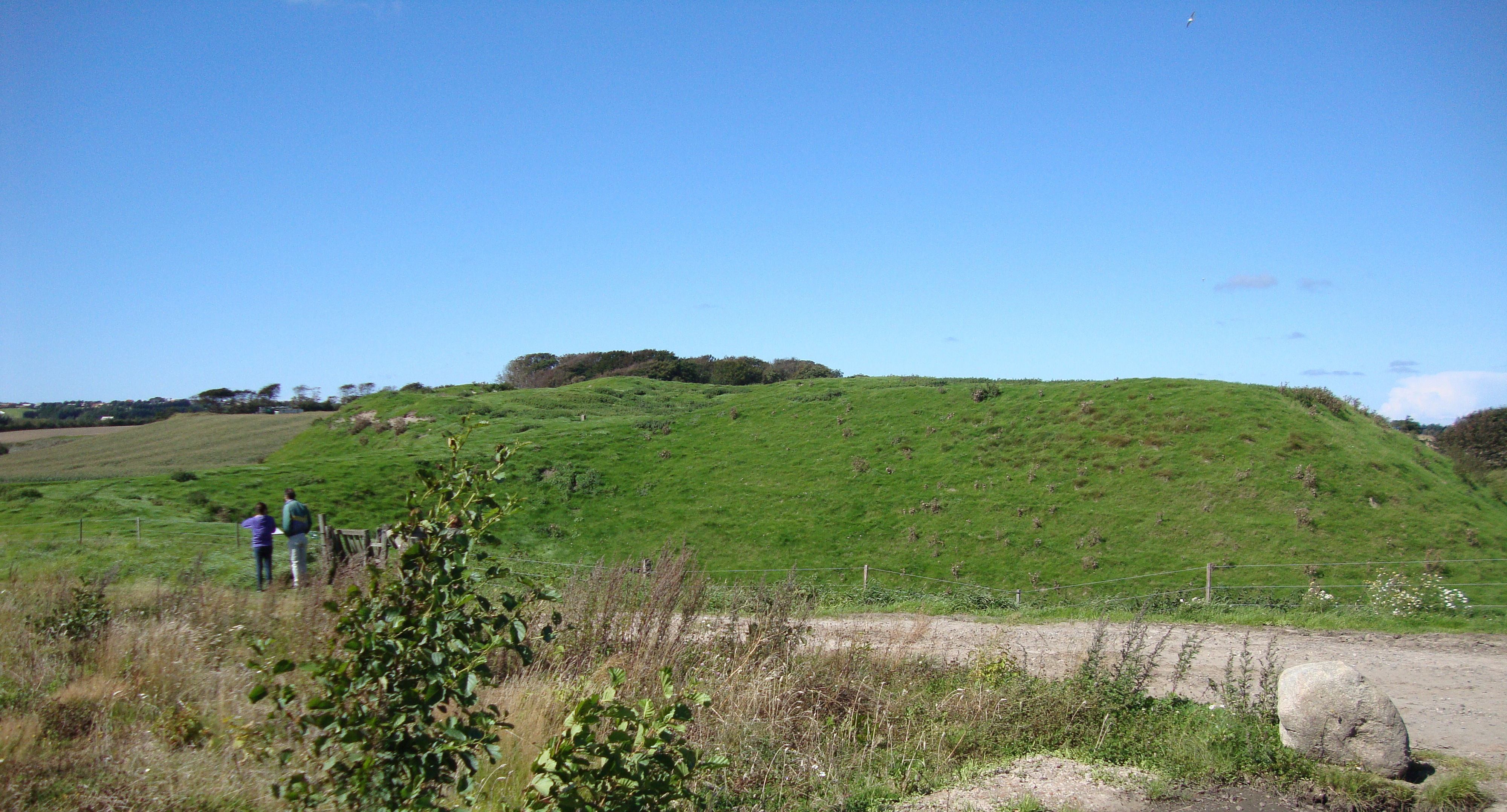 Asdal Voldsted is an ancient function of damming water for protection.